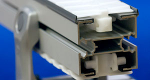 Conveyor beam in aluminium or stainless steel, with low friction slide rails guiding a plastic multi-flexing chain.